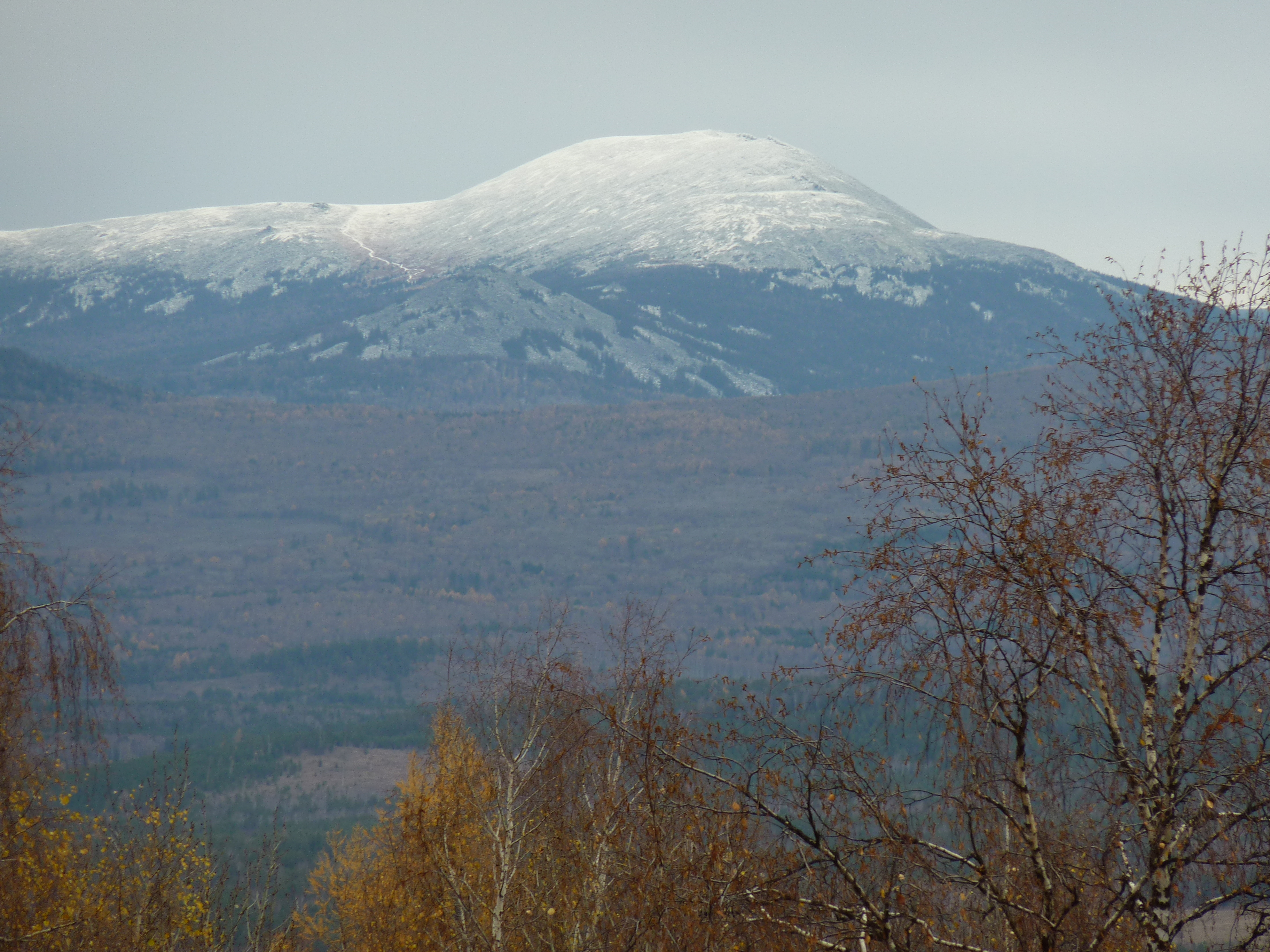 Mount B.Iremel and river source (leftwards)